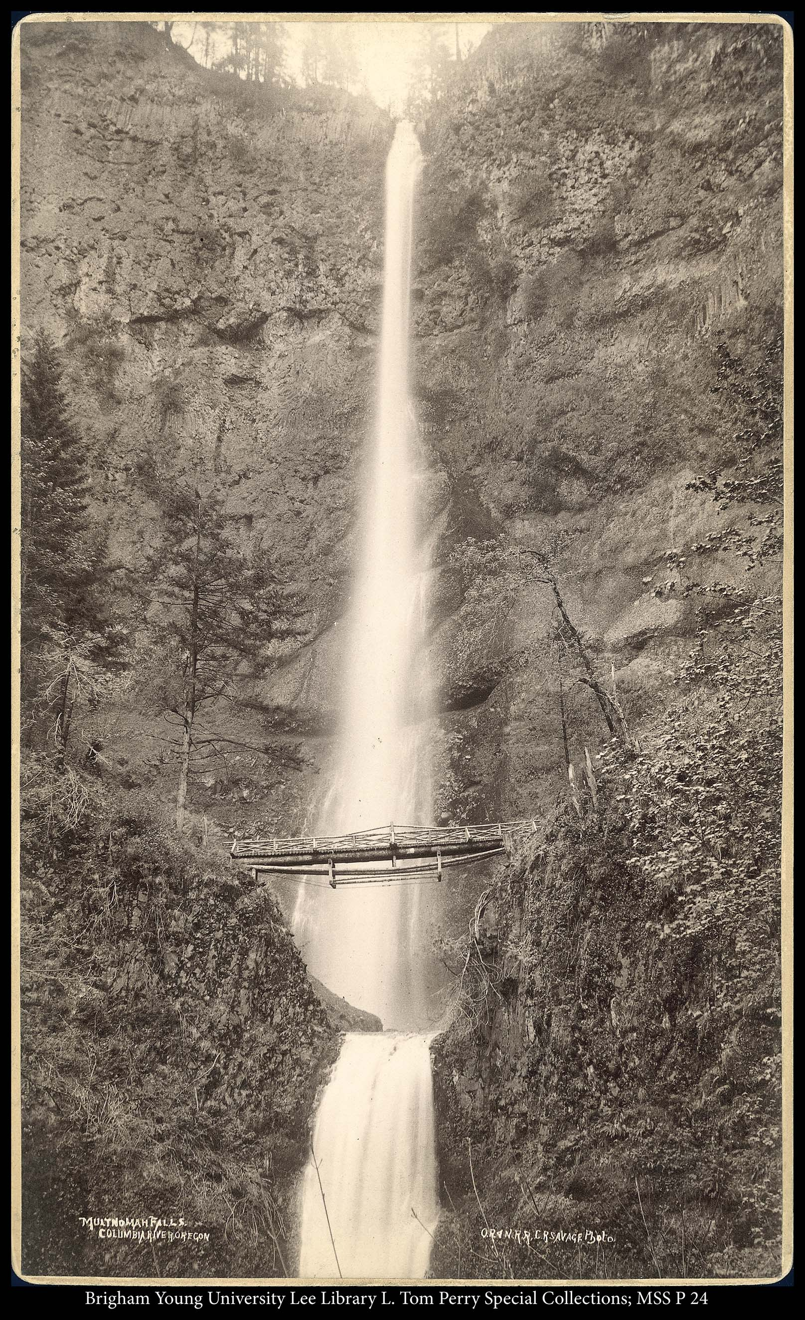 A scenic view of a wooden bridge over the second level of a tall waterfall.